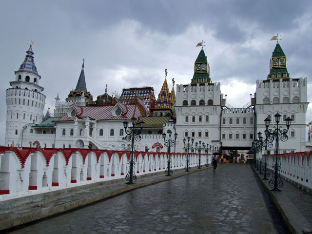 Kremlin in Izmaylovo, Moscow